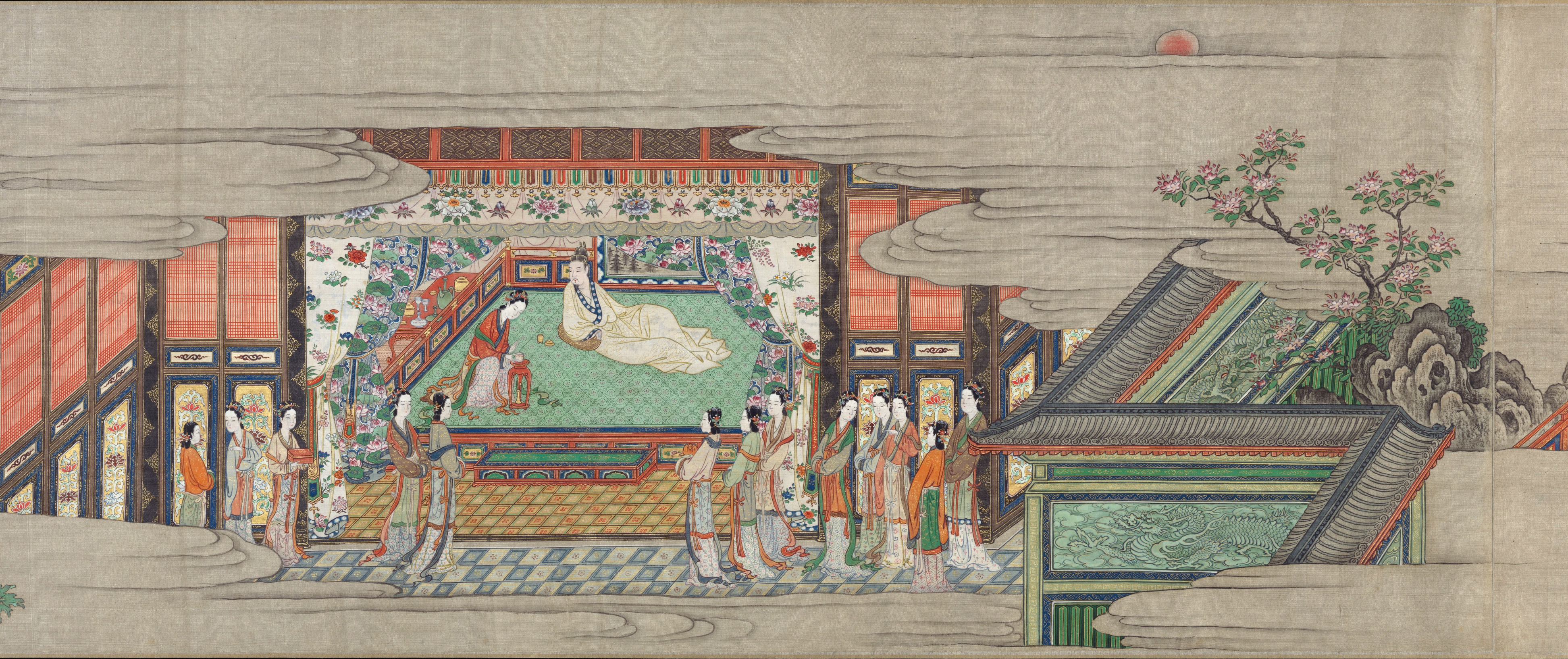 Japanese Art, Chogonka Emaki by Kano Sansetsu （Japanese painter, 1590-1651). The story is based on the tragic Chinese poem "Minghuang’s Dalliance" written by Bai Juyi (Chinese poet, 772-846). Chester Beatty Library, Dublin